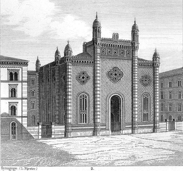 Synagogue in Wien (Tempelgasse -Leopoldstadter) destroyed by the Germans in 1938.